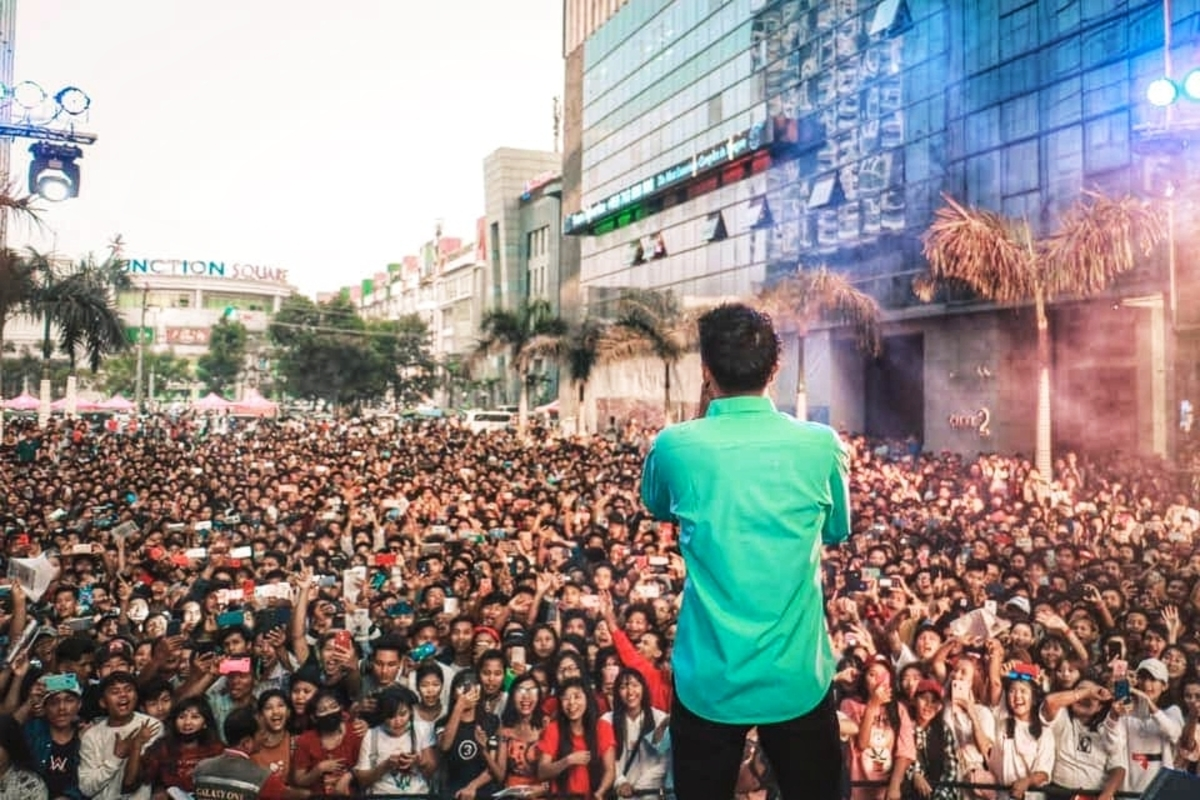 Yarwana is very famous singer in Myanmar.